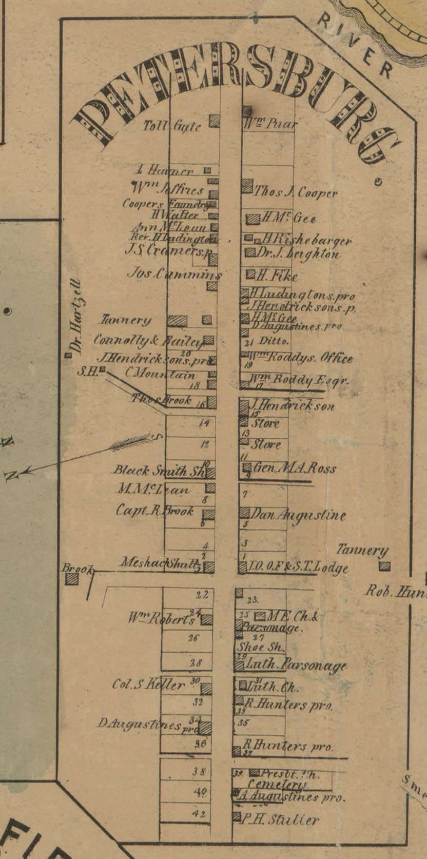 Map of Petersburg (later named Addison), Somerset County, Pennsylvania, taken from 1860 Edward L. Walker map of Somerset County available at the Library of Congress website